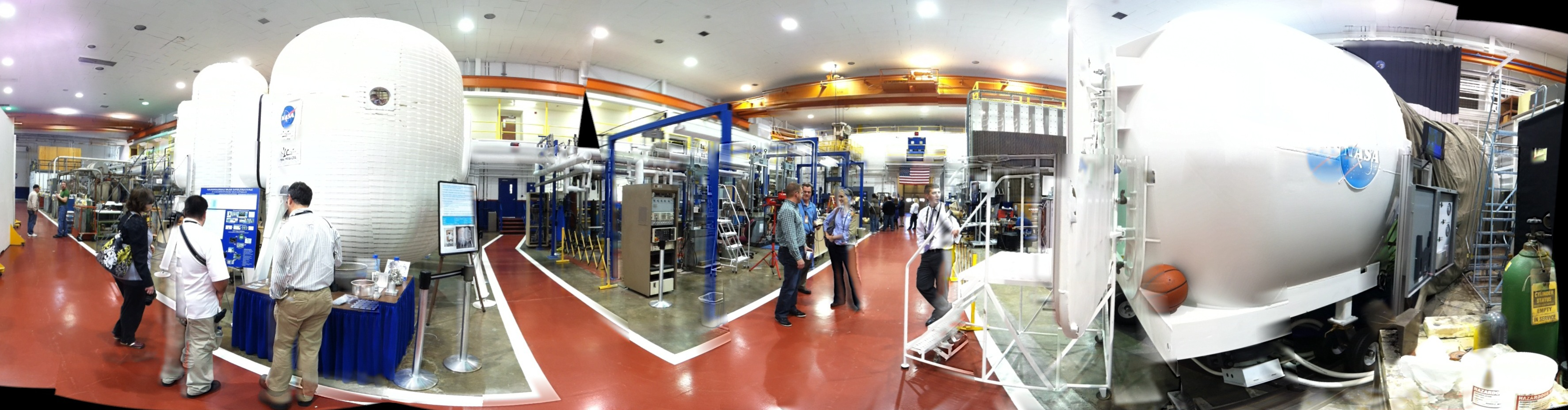 panorama of Materials Research Lab NASA Langley Research Center in Hampton, VA